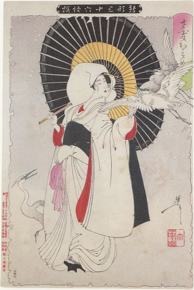 Sagi-musume (Heron-girl)